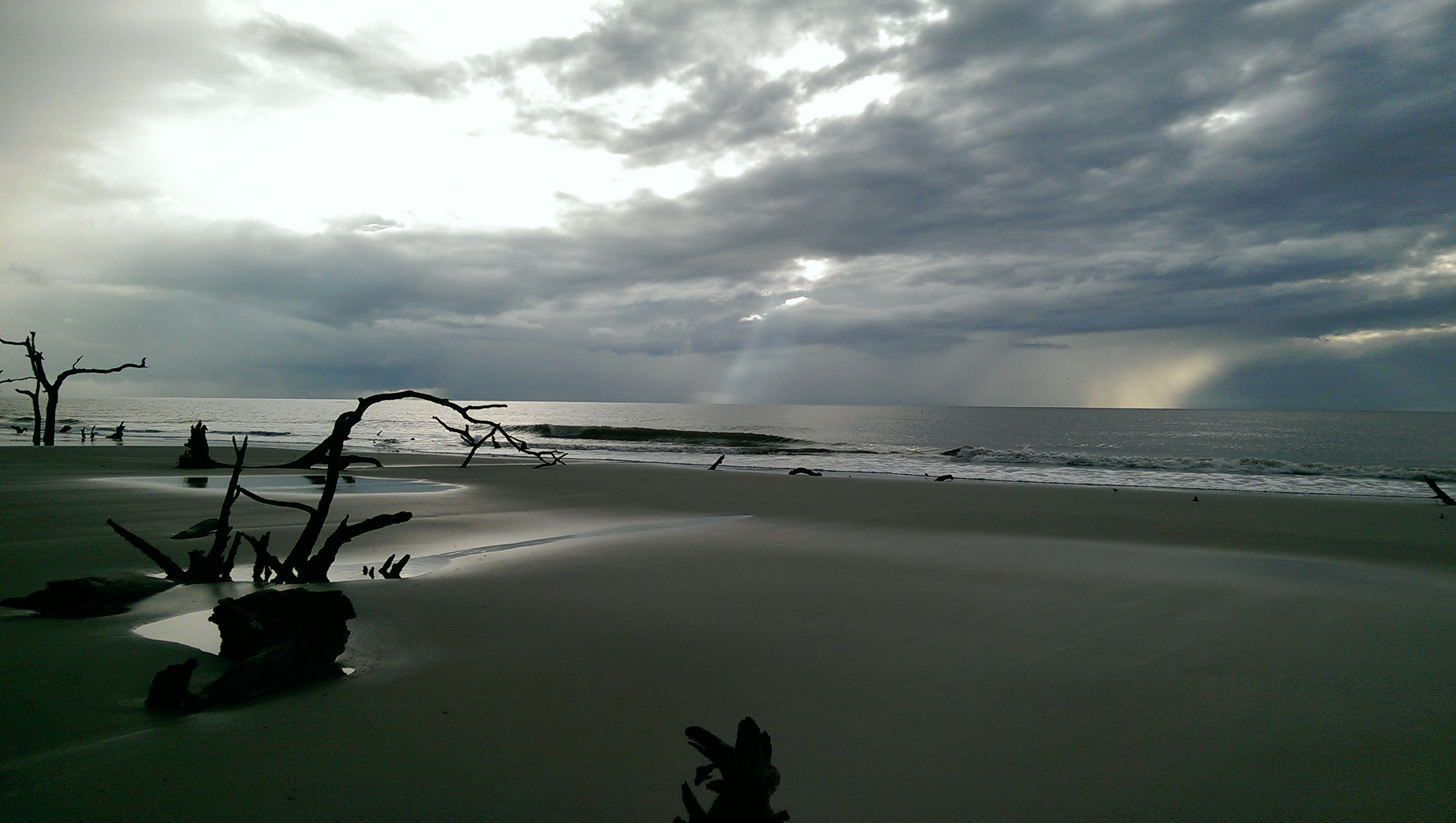 This boneyard was created by the ever-shifting coastline that has encroached upon the tree-line of the maritime forest of St. Catherines Island, 10 mi. off the GA coast between St. Catherines Sound and Sapelo Sound, Liberty County, Ga.